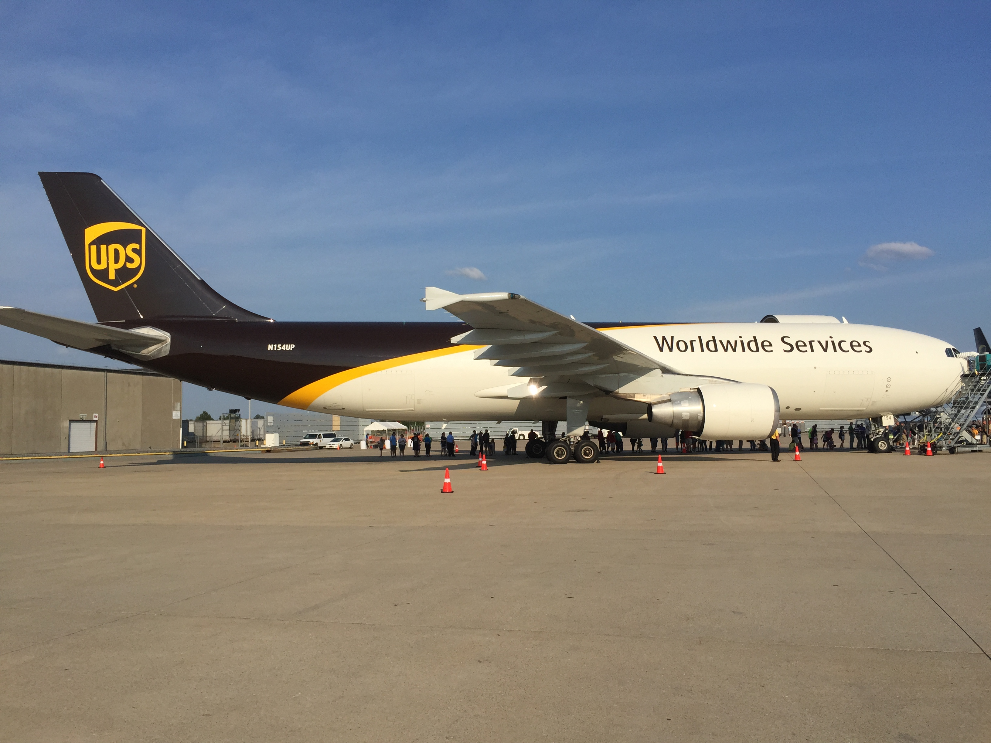 A [Airbus A300-600 painted in the 2014 updated livery at Louisville International Airport